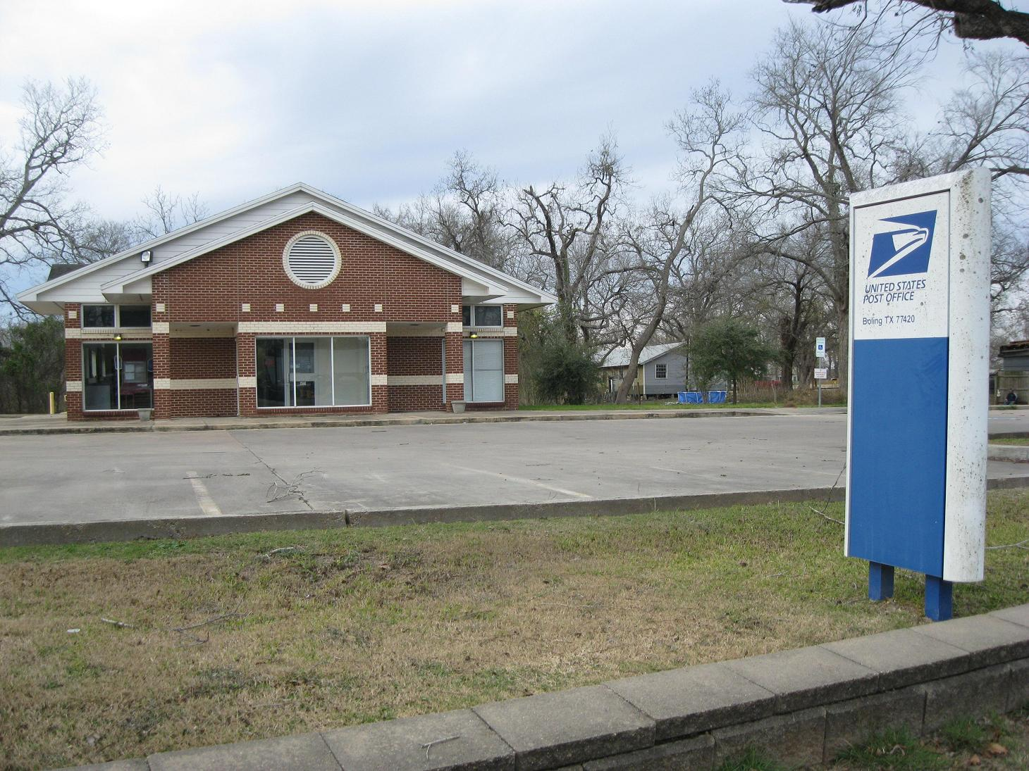 Photo shows the US Post Office in Boling, Texas. The building is on FM 442 southwest of its intersection with FM 1301.